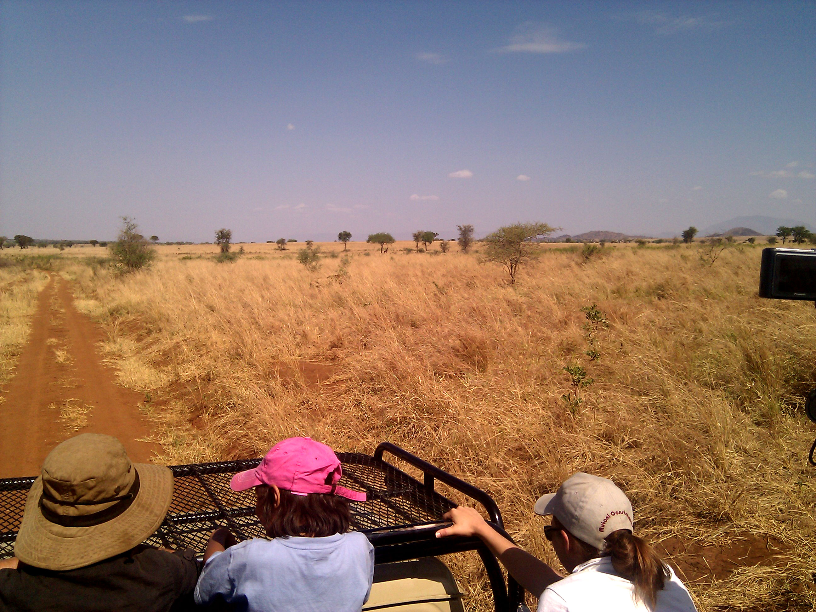 Game viewing track in the park, with a lion hidden in the grass